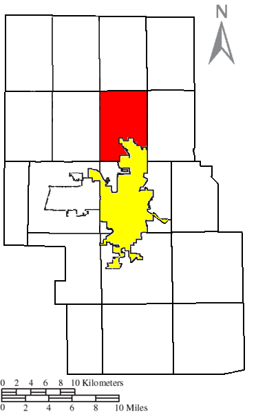 Made by the US Census and altered by myself to highlight the township